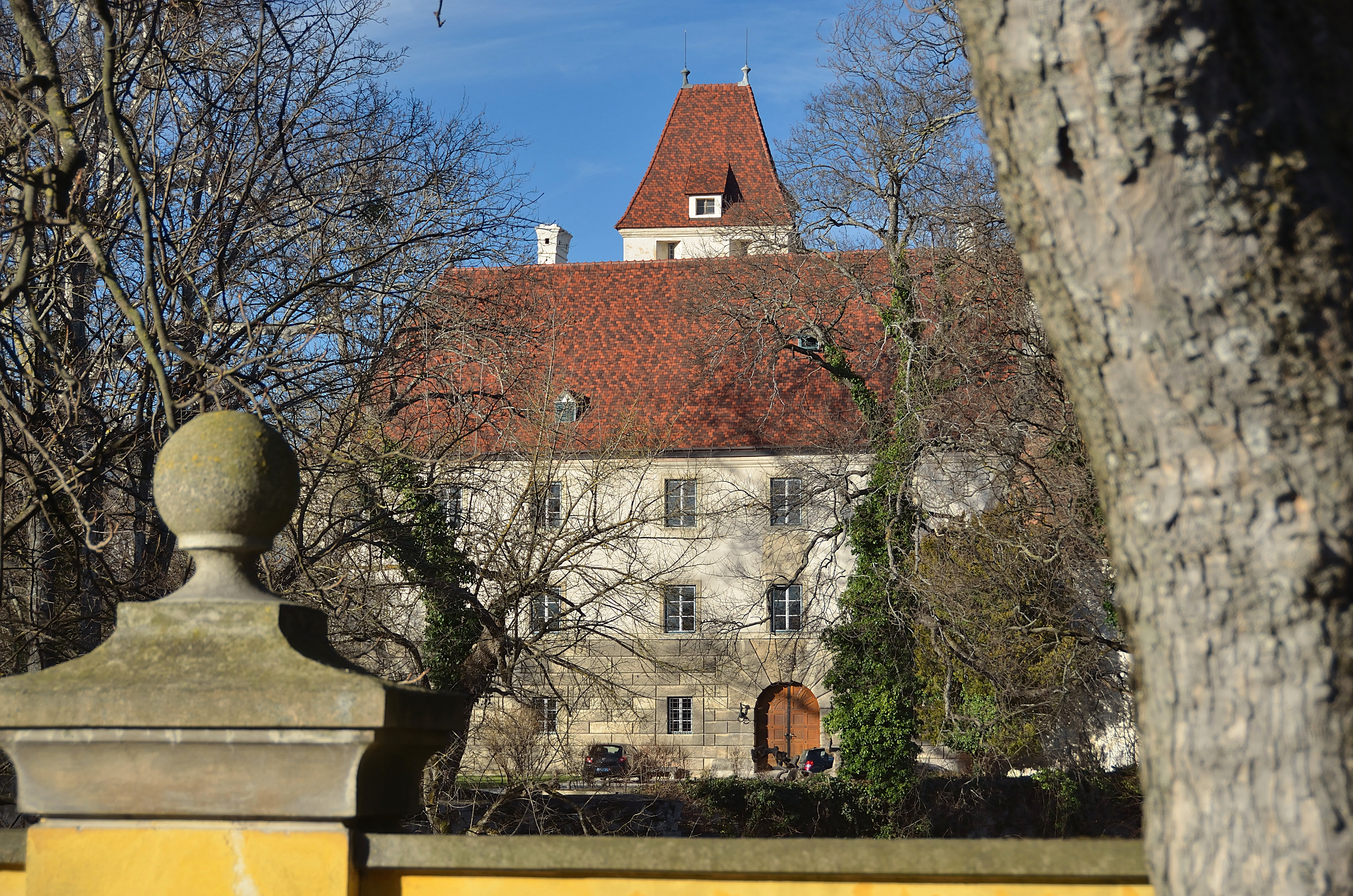 Water castle Ebreichsdorf, Lower Austria.